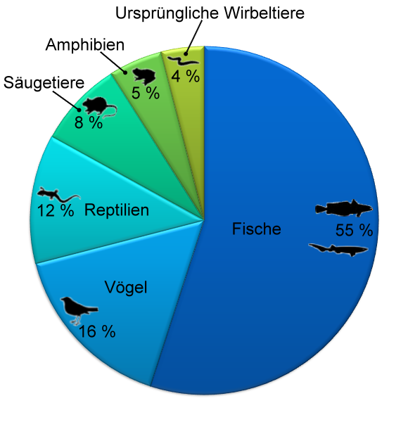 Pie chart showing proportions of different kinds of vertebrates. The category "Fish" includes cartilaginous fishes (Chondrichthyes) and bony fishes (Osteichthyes) as well. With German labels